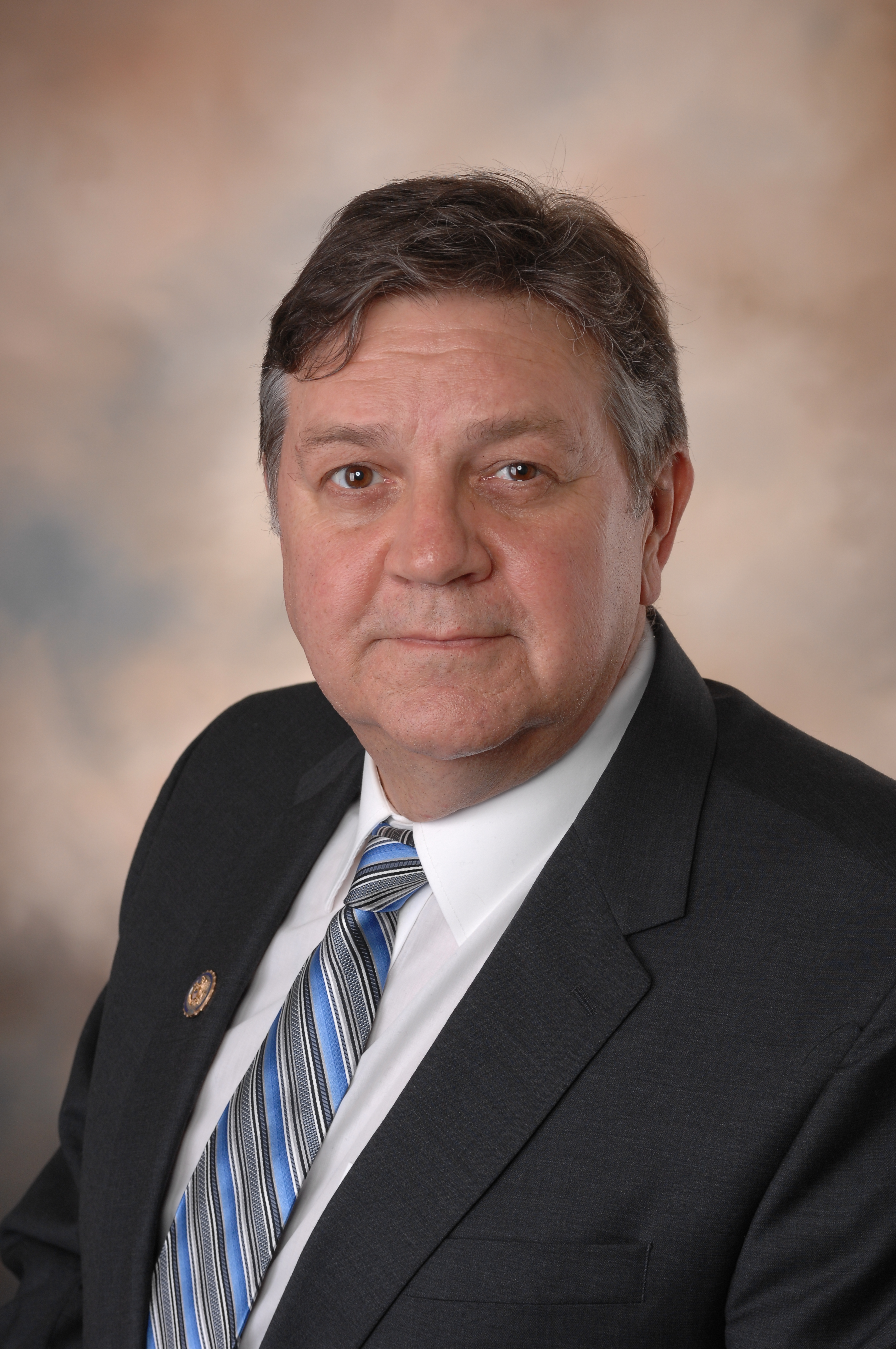 Official portrait of US Rep. Dan Benishek.